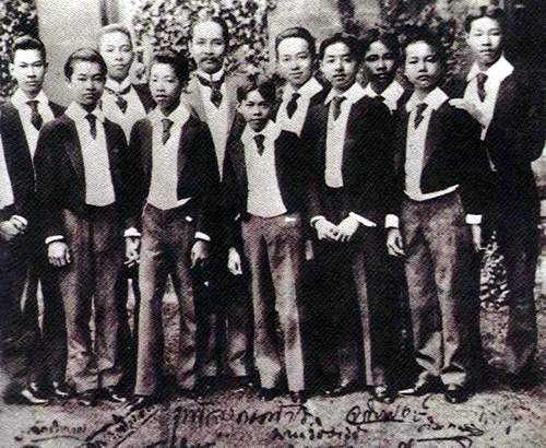 Photograph of King Chulalongkorn with a few of his sons in England 1907, during his second Grand Tour of Europe.